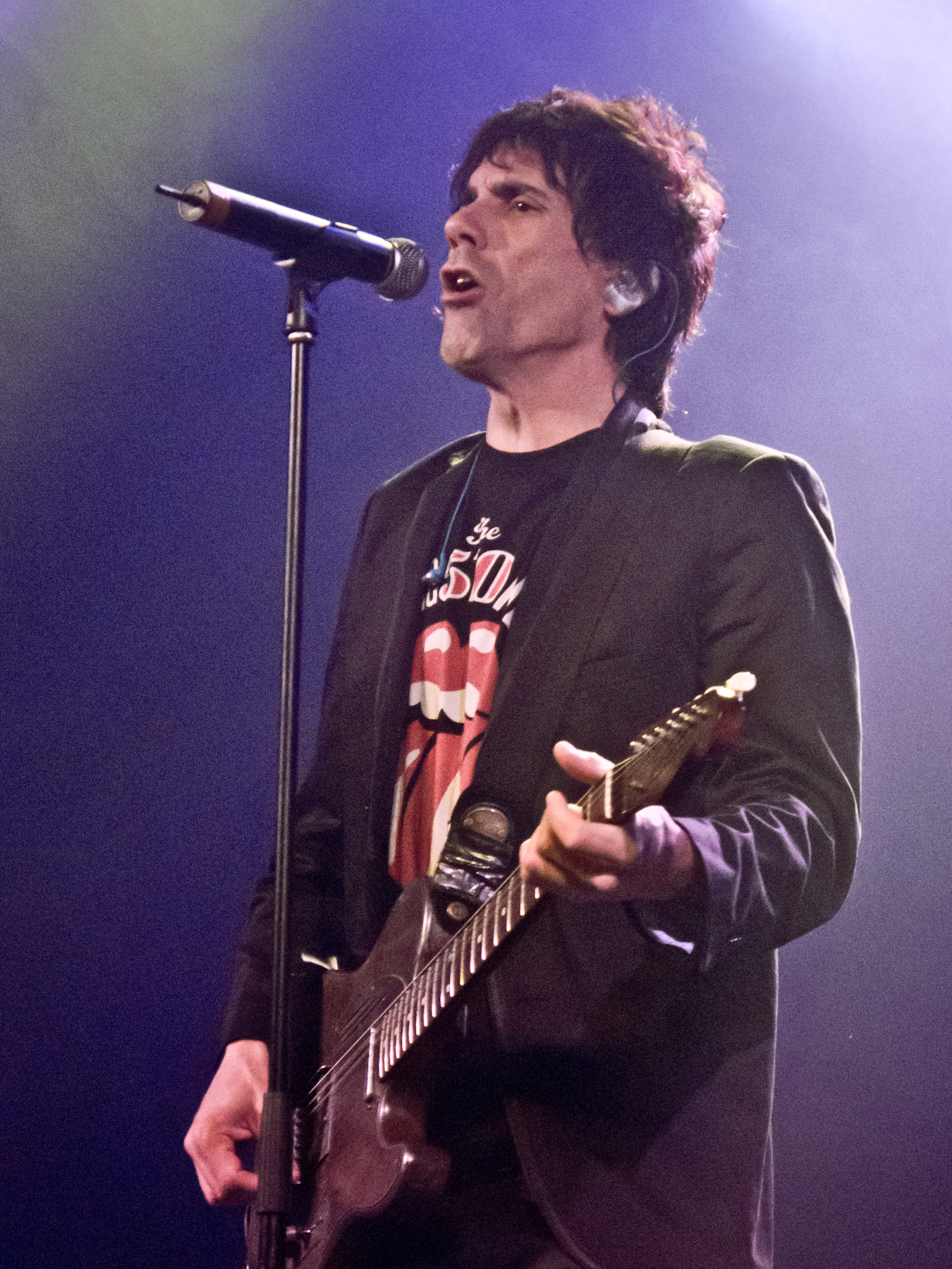 Guasones live in Madrid in 2012.